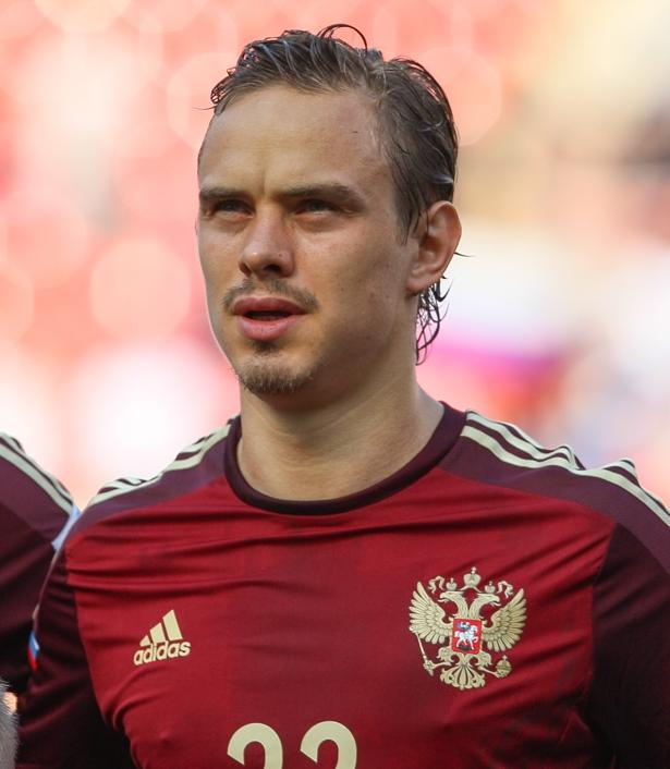 Andrey Yeshchenko with the Russian national football team before a friendly game against Morocco in Moscow.